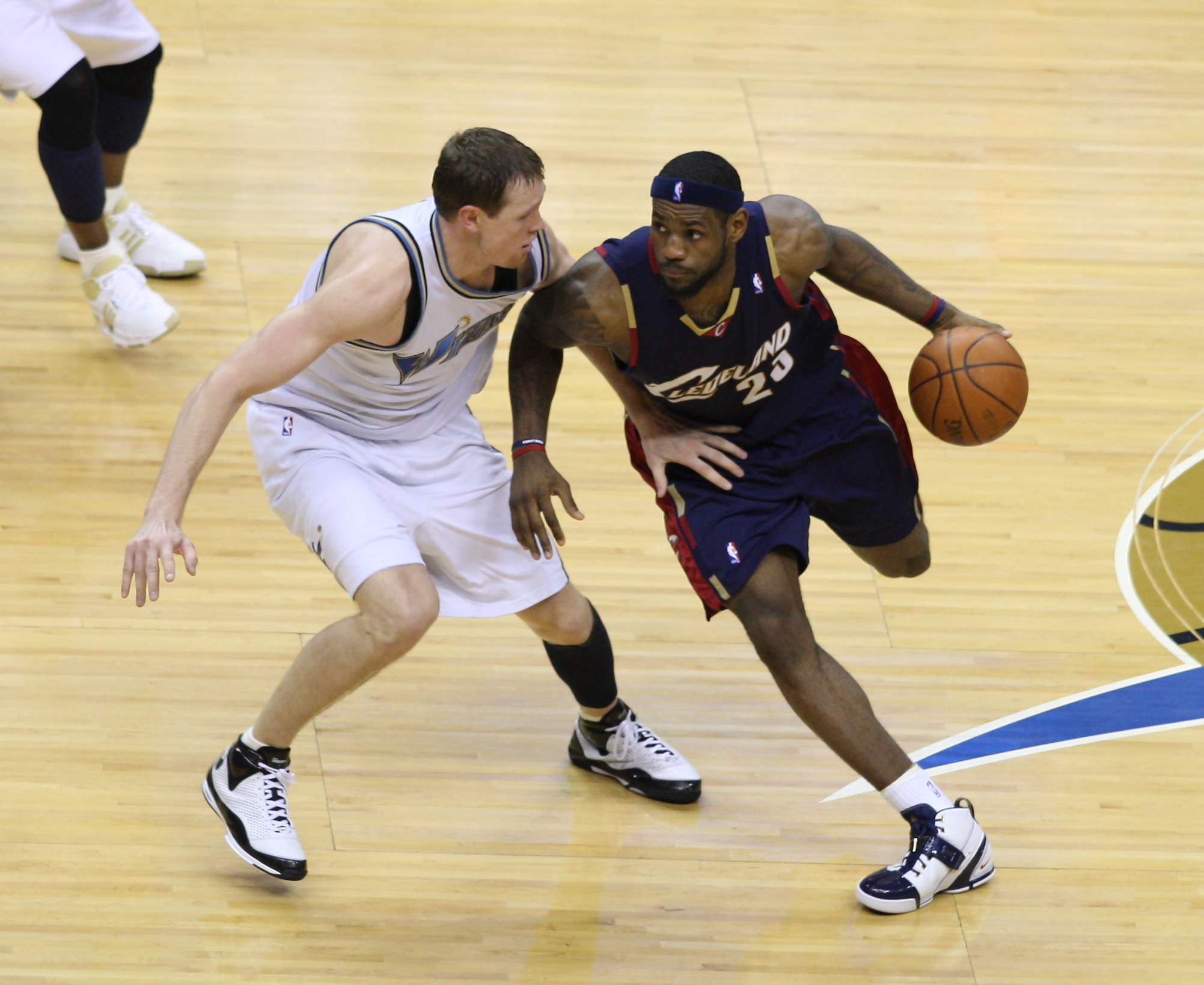 Darius Songaila tries to guard LeBron James.